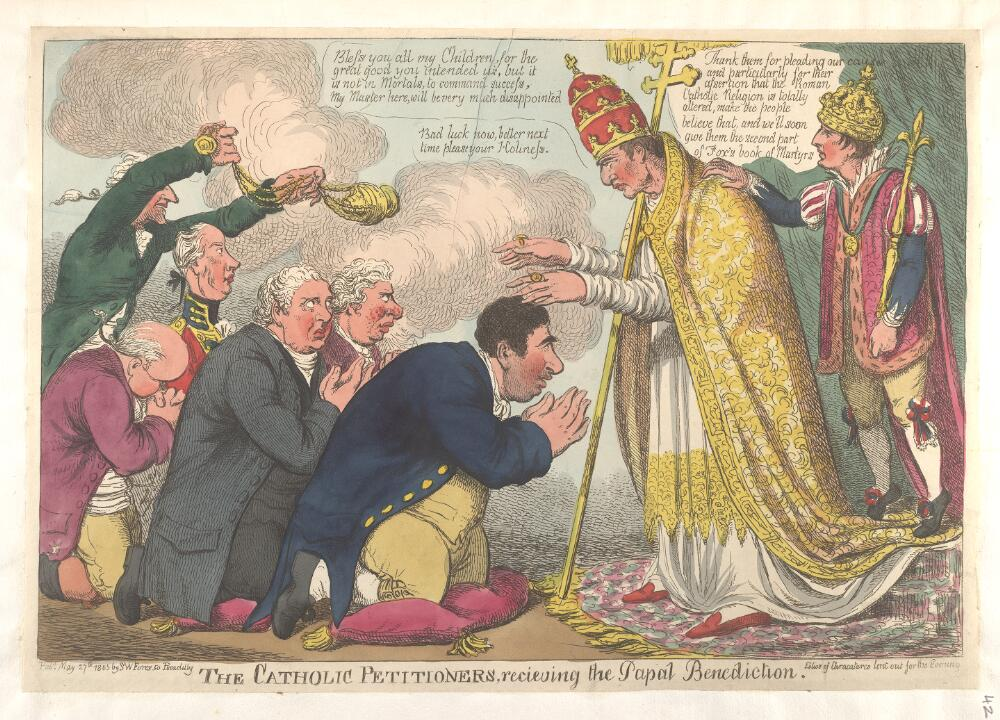 British political cartoon